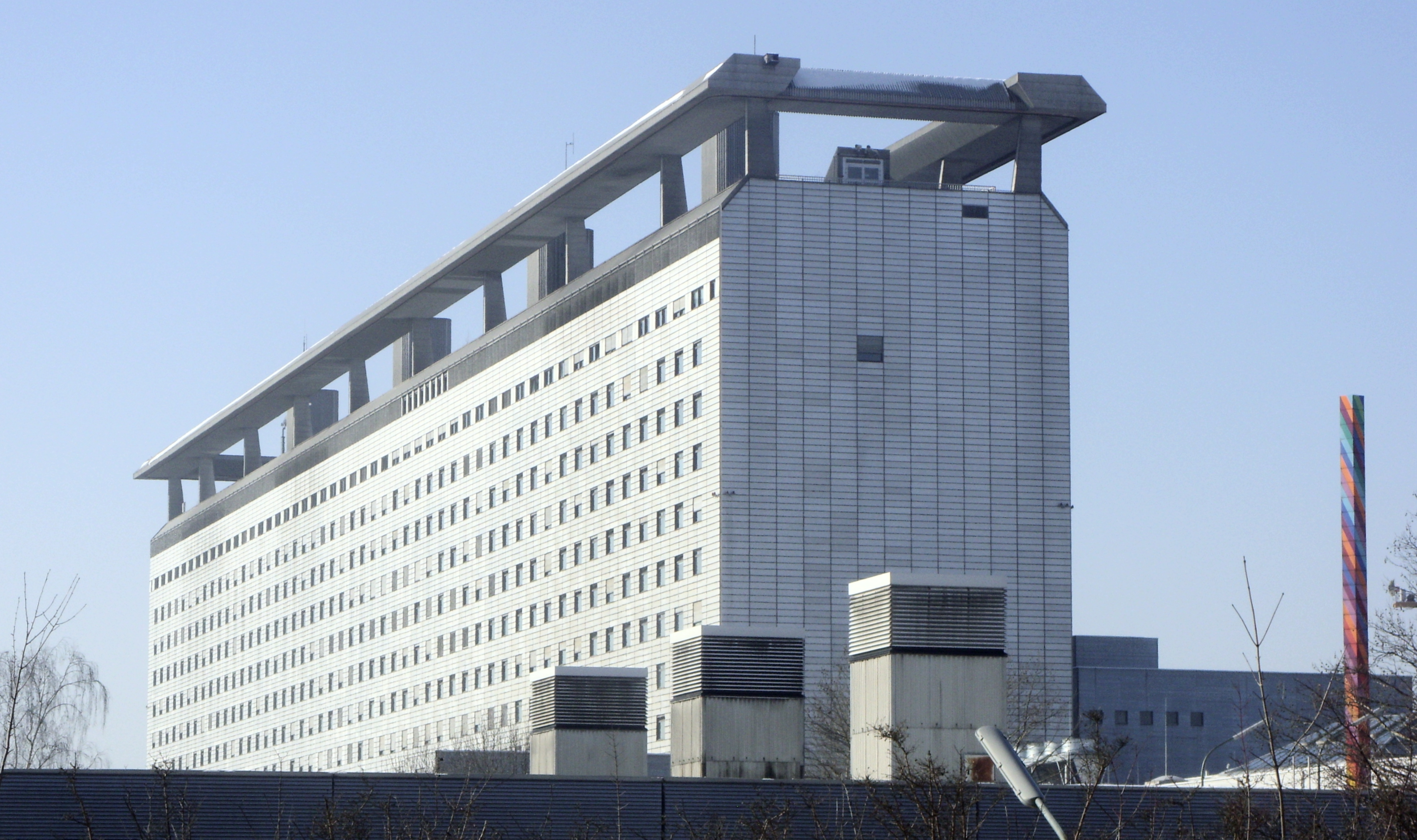 View on Hospital Grosshadern (South) - Munich